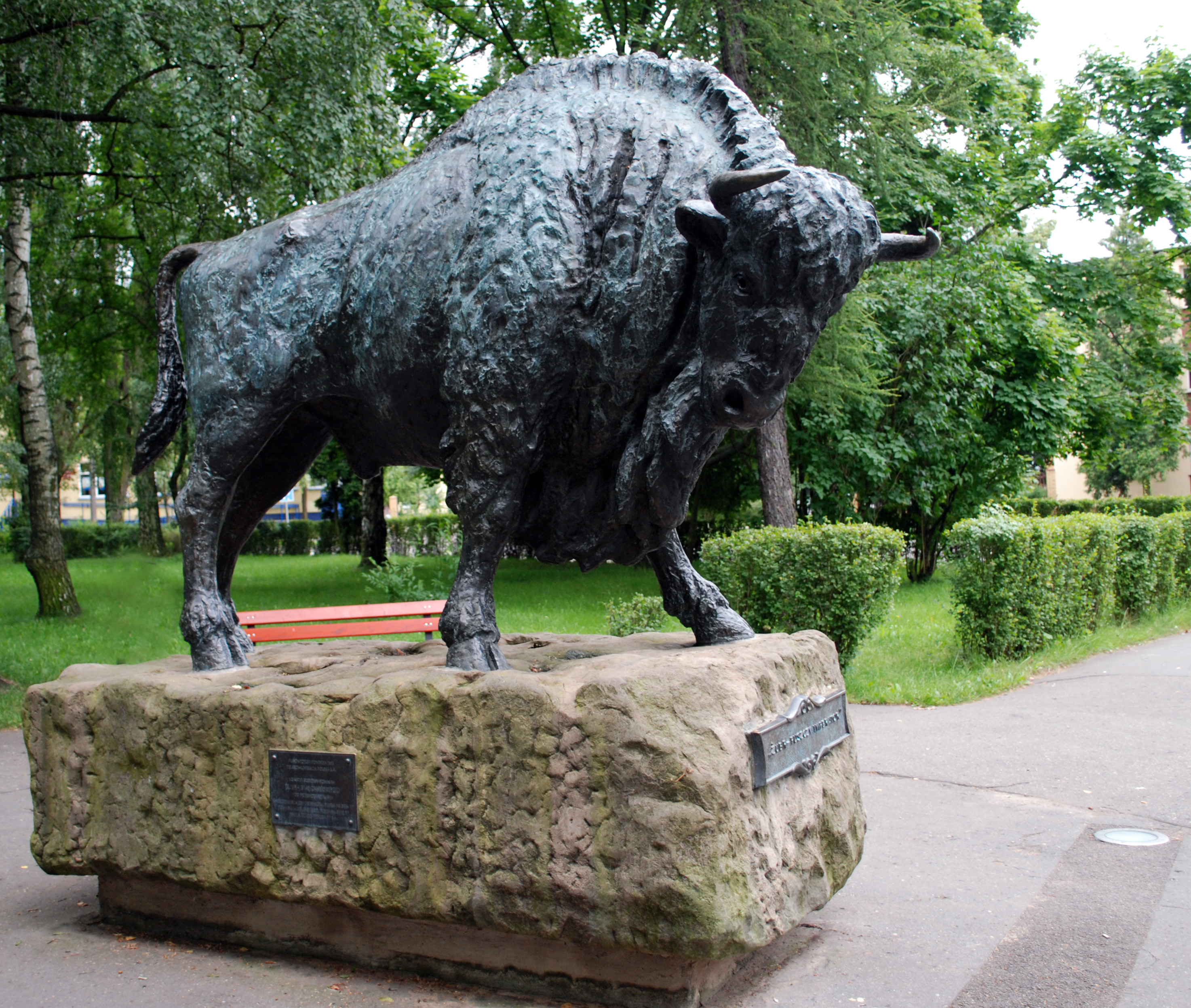 This photo from Podlaskie Voievodeship was taken during Polish Wikiexpedition 2009 set up by Wikimedia Polska Association. The making of this document was supported by Wikimedia Polska. Pomnik żubra w Hajnówce.